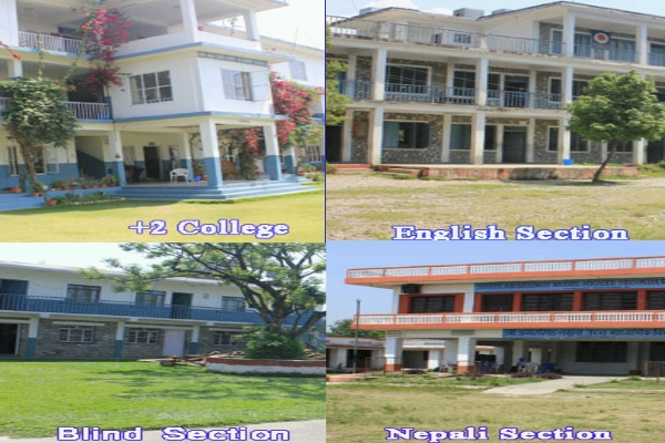 Faculties of Amarsingh Model Higher Secondary School